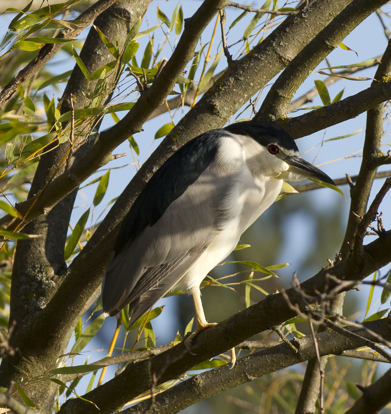 Black-crowned Night Heron (Nycticorax nycticorax)